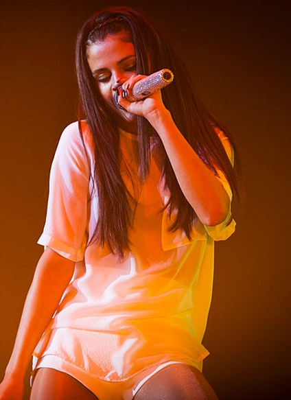 Selena Gomez during the Stars Dance Tour, Norway, september 2013.